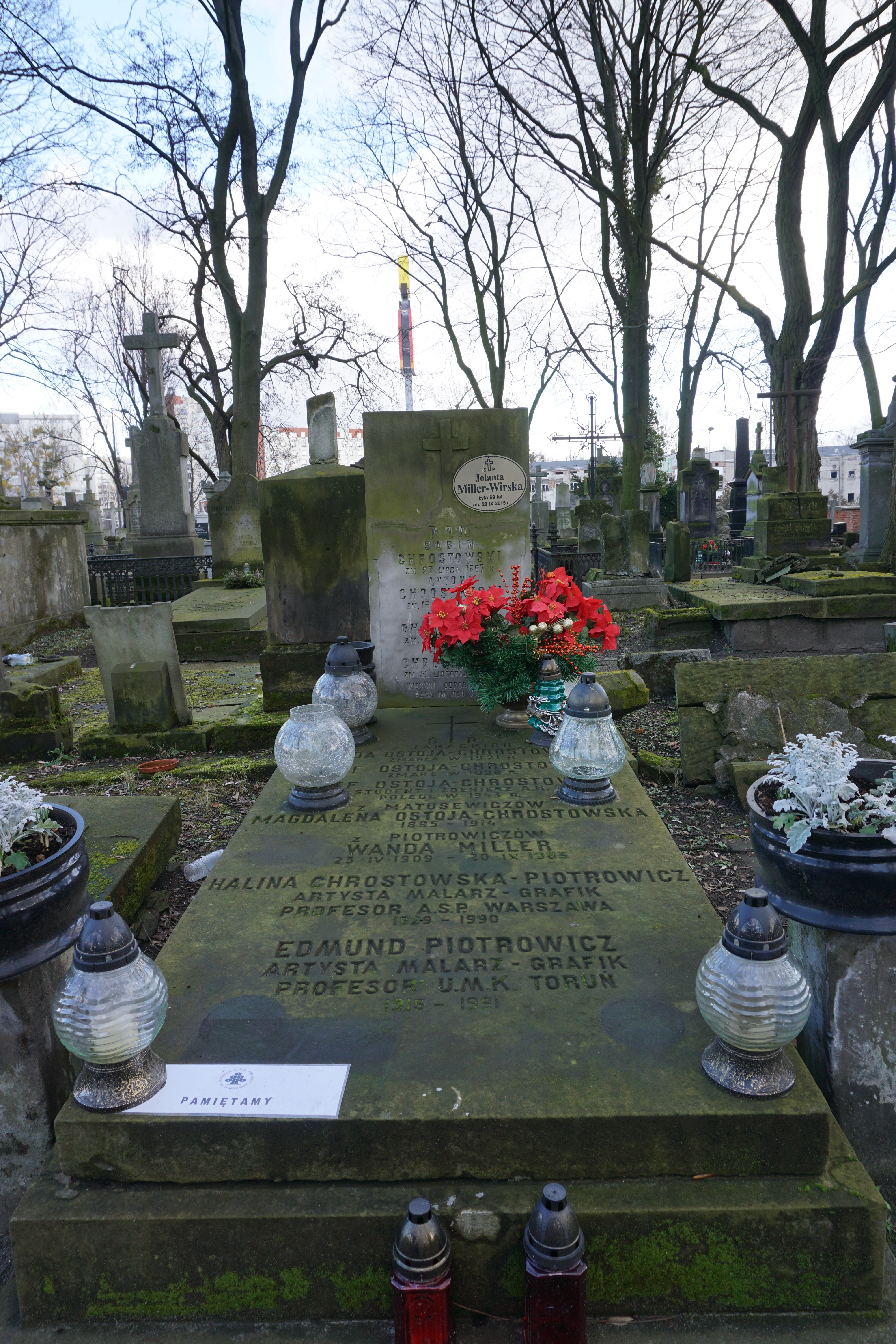 The grave of Halina Chrostowska at the Powązki Cemetery (section 179, row 4, grave 23)